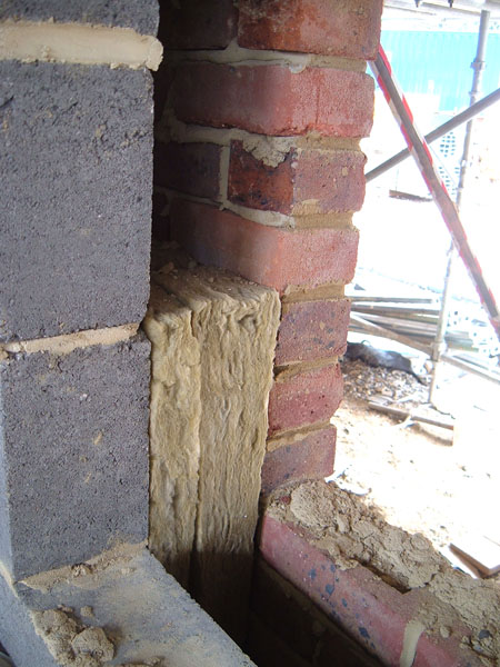 A typical cavity wall of blockwork, insulation and brickwork. This would be considered a poor example of a cavity wall by today's standards. The insulation is in contact with both walls, which would allow moisture to pass through from the outer leaf to the inner leaf, causing damp. In modern cavity walls, the insulation is usually installed against the inner leaf (wall) and secured, still leaving an adequate air space in the cavity.